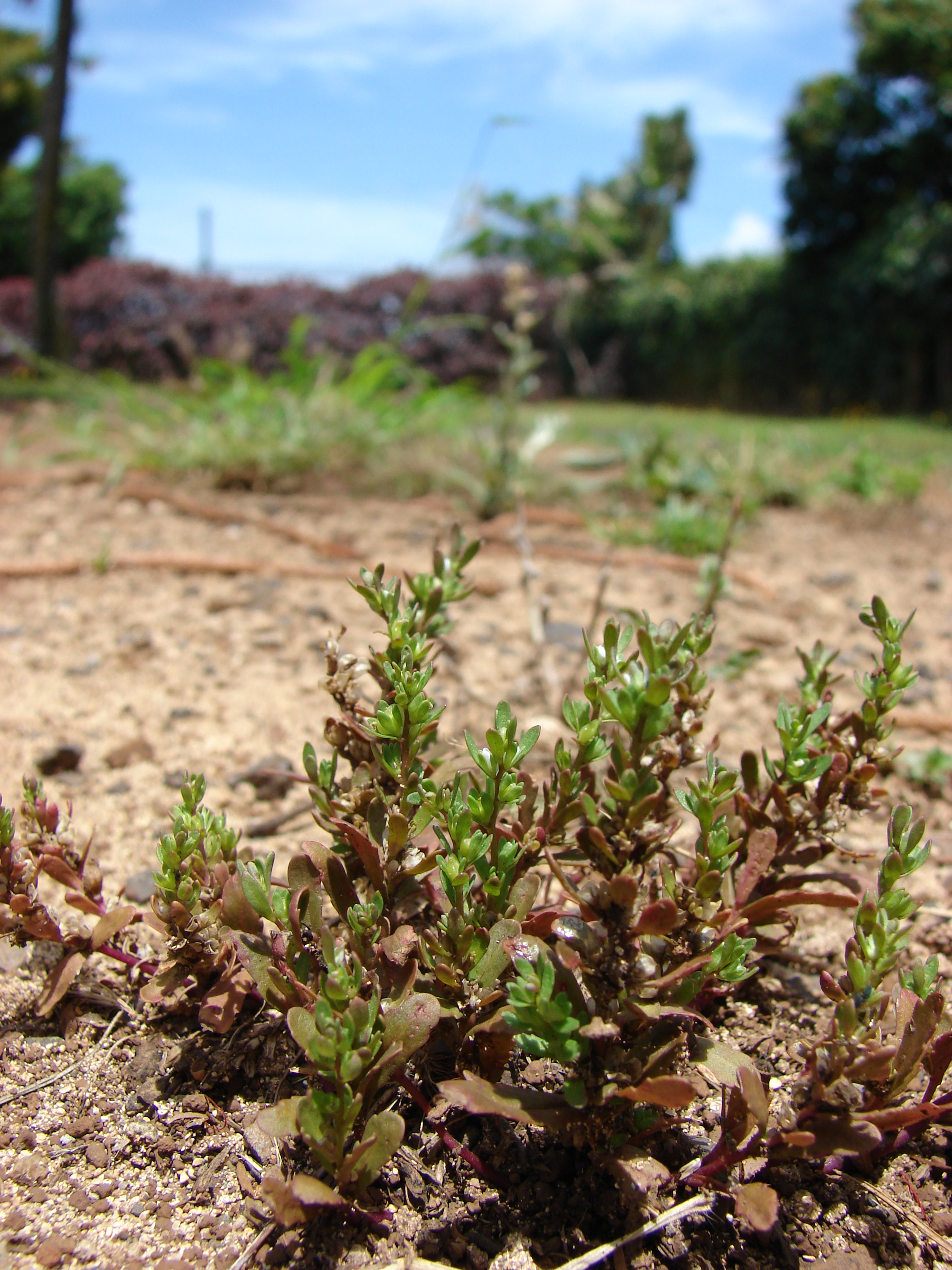 Veronica peregrina (habit). Location: Maui, Makawao